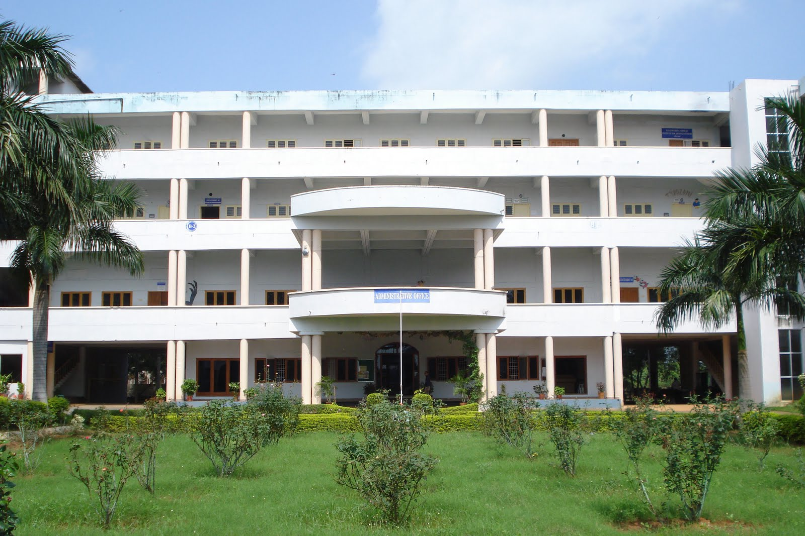 Front View of GVP College of Engineering